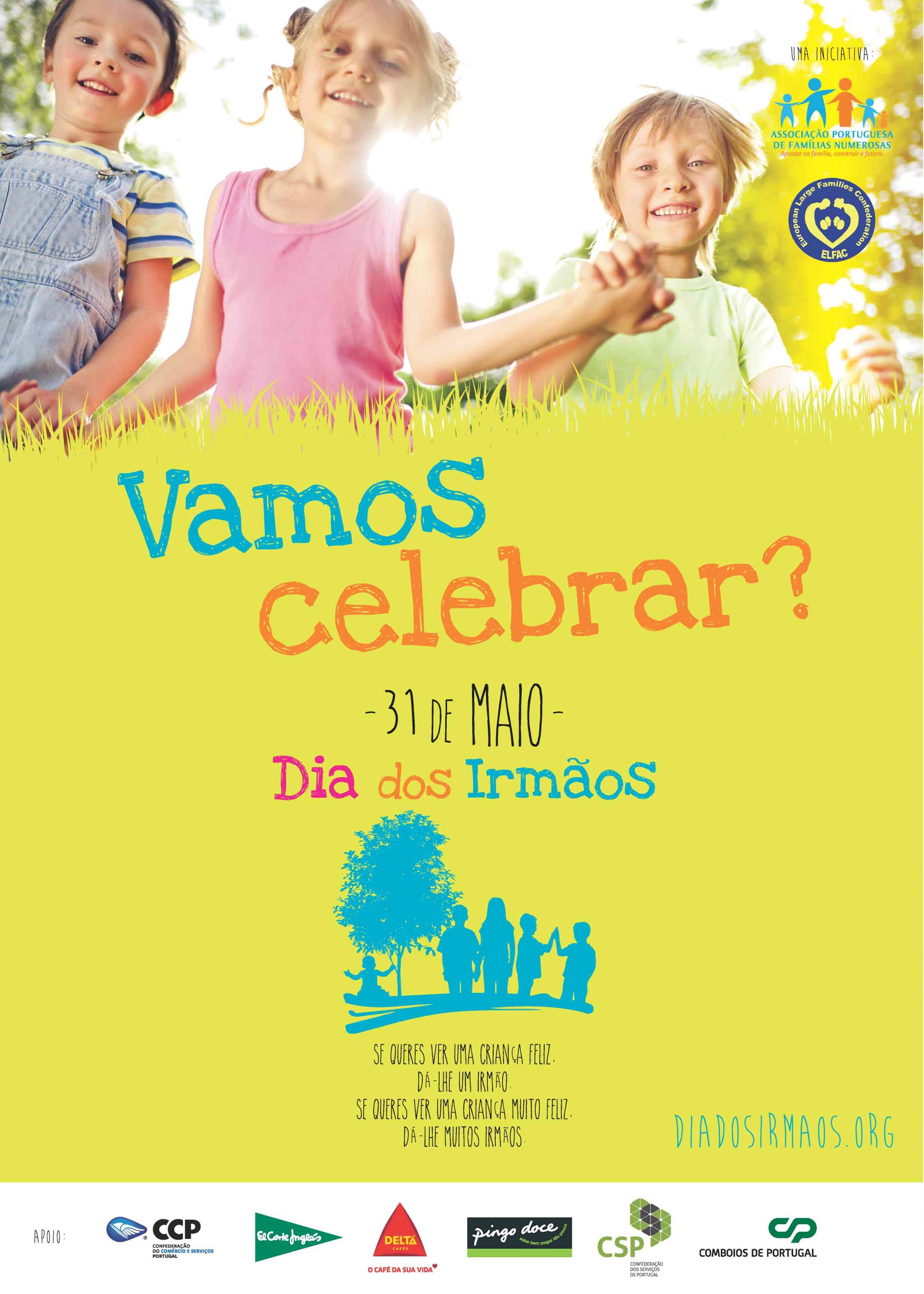 The picture reproduces the poster printed by APFN - Large Families Portuguese Association to draw public attention to Siblings' Day celebration, in 2016.